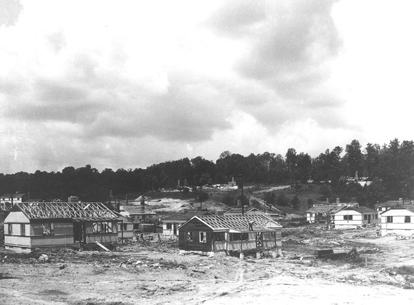 Cemesto homes under construction in Oak Ridge, Tennessee, during World War II. These houses are "A" and "B" house plans.